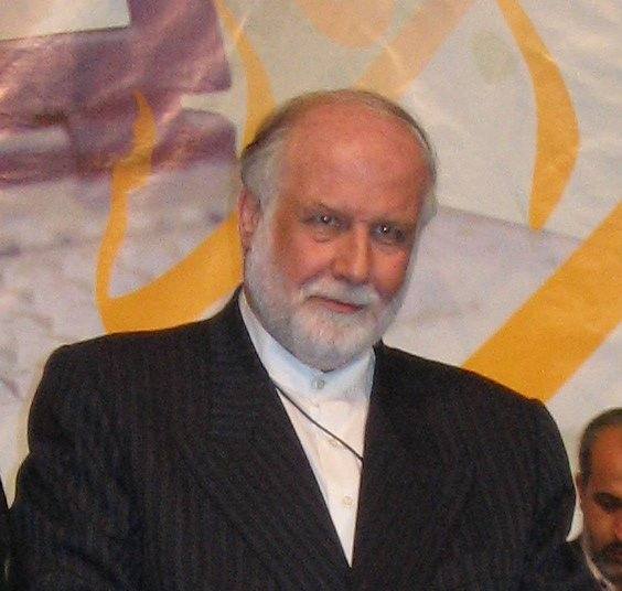 Hasan Habibi, Second Workshop of Computer and Persian Language, Tehran University.